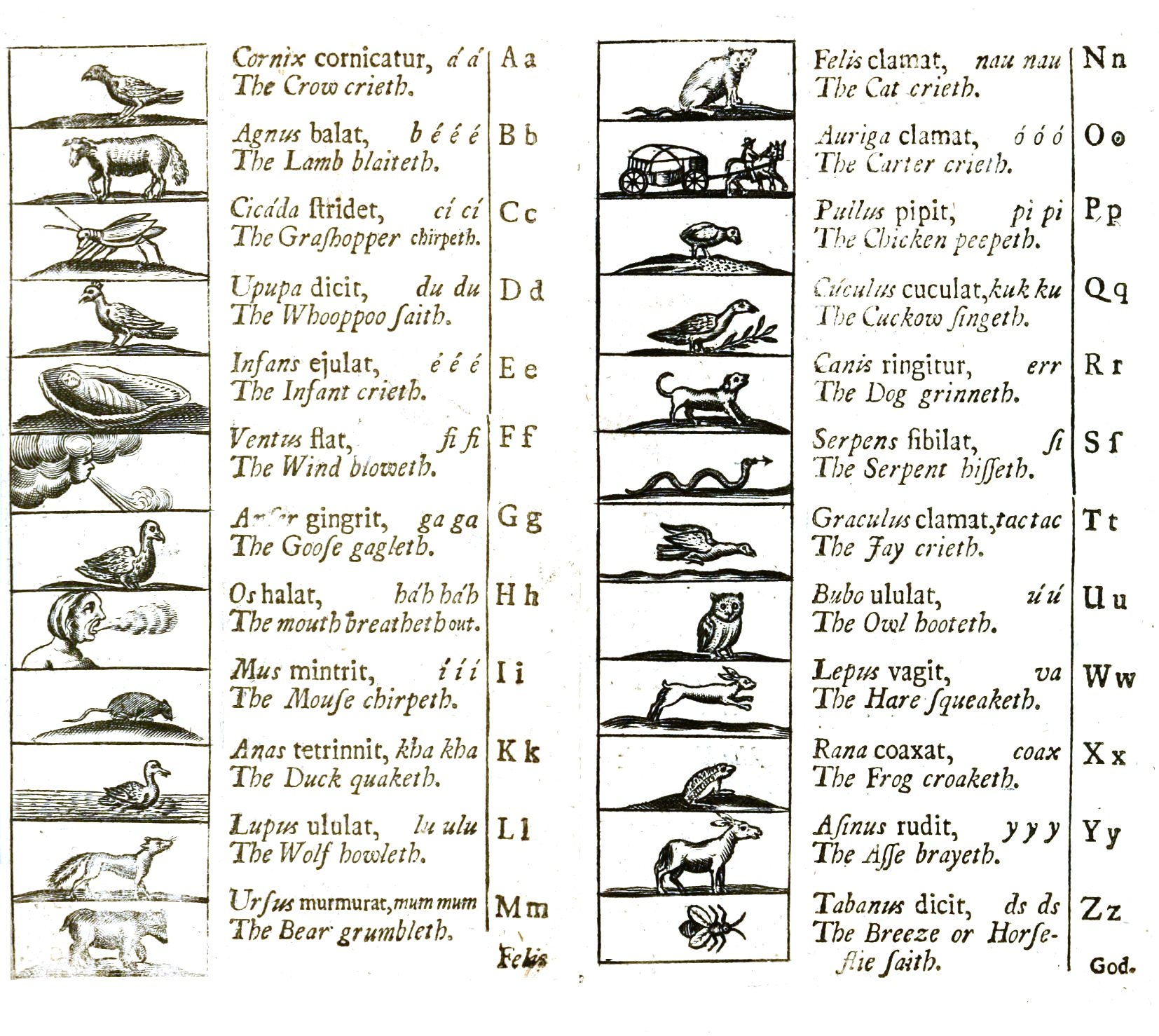 Alphabets chart, 1705